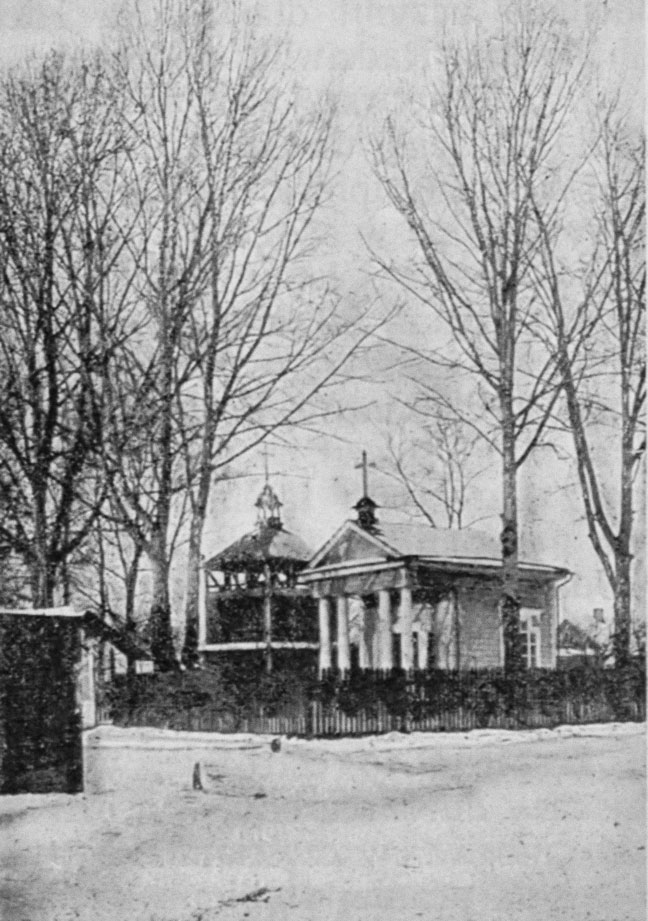 View of the Catholic Chapel in Słucak